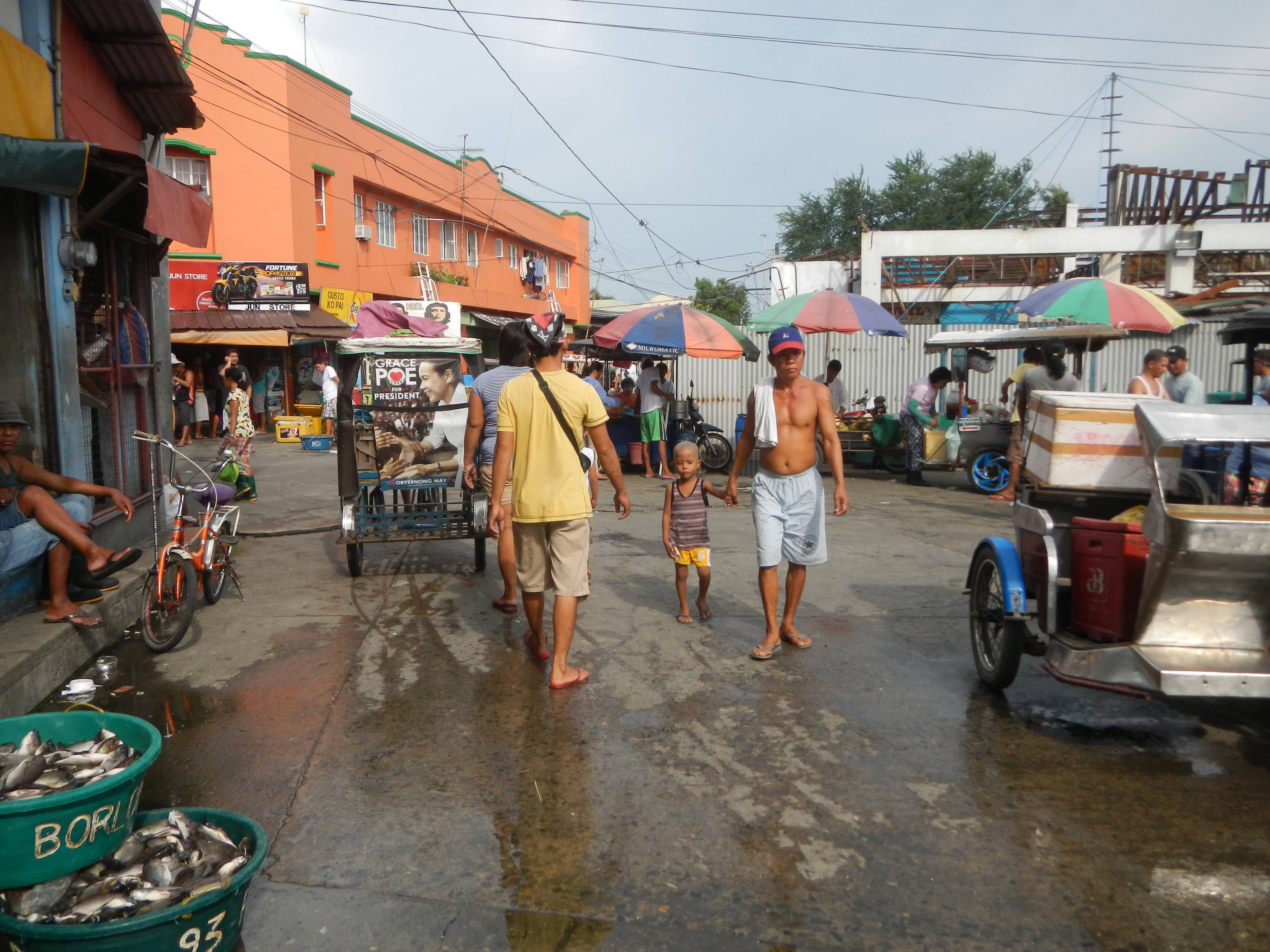 2016 Rehabilition of Panasahan, City of Malolos, Bulacan Fishport (along the Panasahan-Bagna, Malolos City, Bulacan Farm to Market Road Barangays Panasahan and Bagna, Malolos City, Bulacan Bulacan province; Note: Judge Florentino Floro, the owner, to repeat, Donor Florentino Floro of all these photos hereby donate gratuitously, freely and unconditionally all these photos to and for Wikimedia Commons, exclusively, for public use of the public domain, and again without any condition whatsoever).